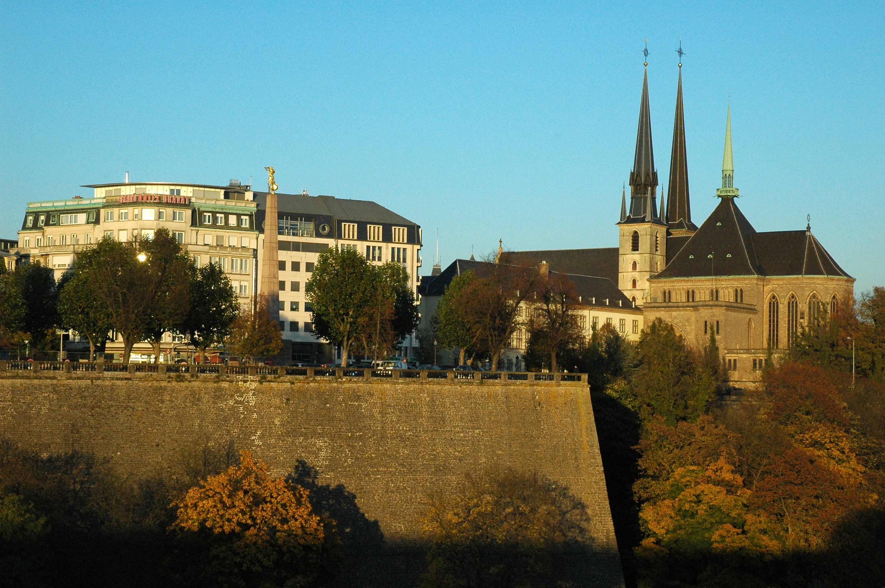 Ville Haute, Luxembourg. Taken from the Adolphe bridge, Luxembourg (city).